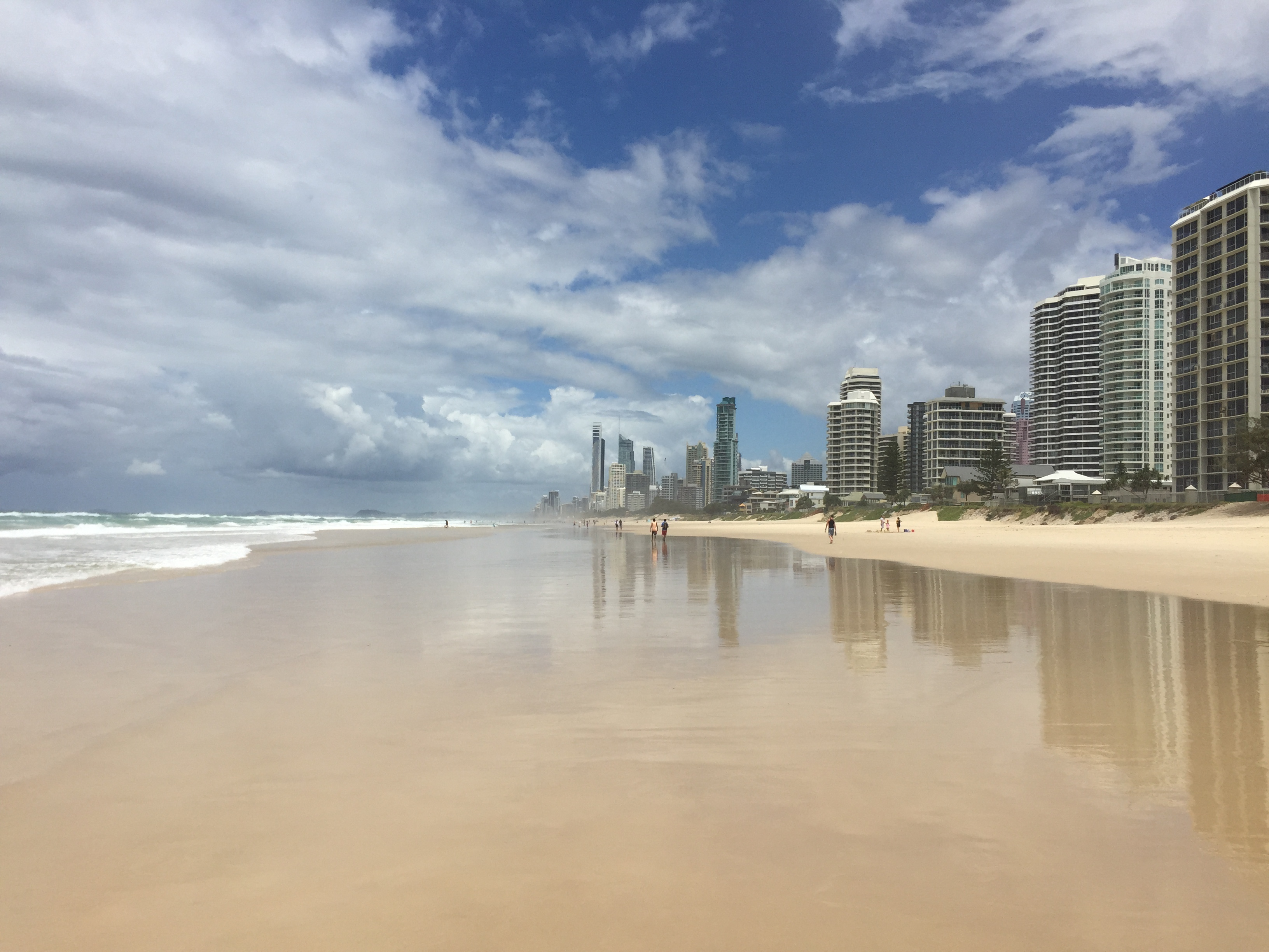 Beach of the Main Beach at low tide, Queensland with Surfers Paradise in the distance.